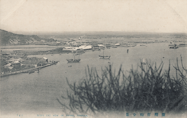 The early Takao port